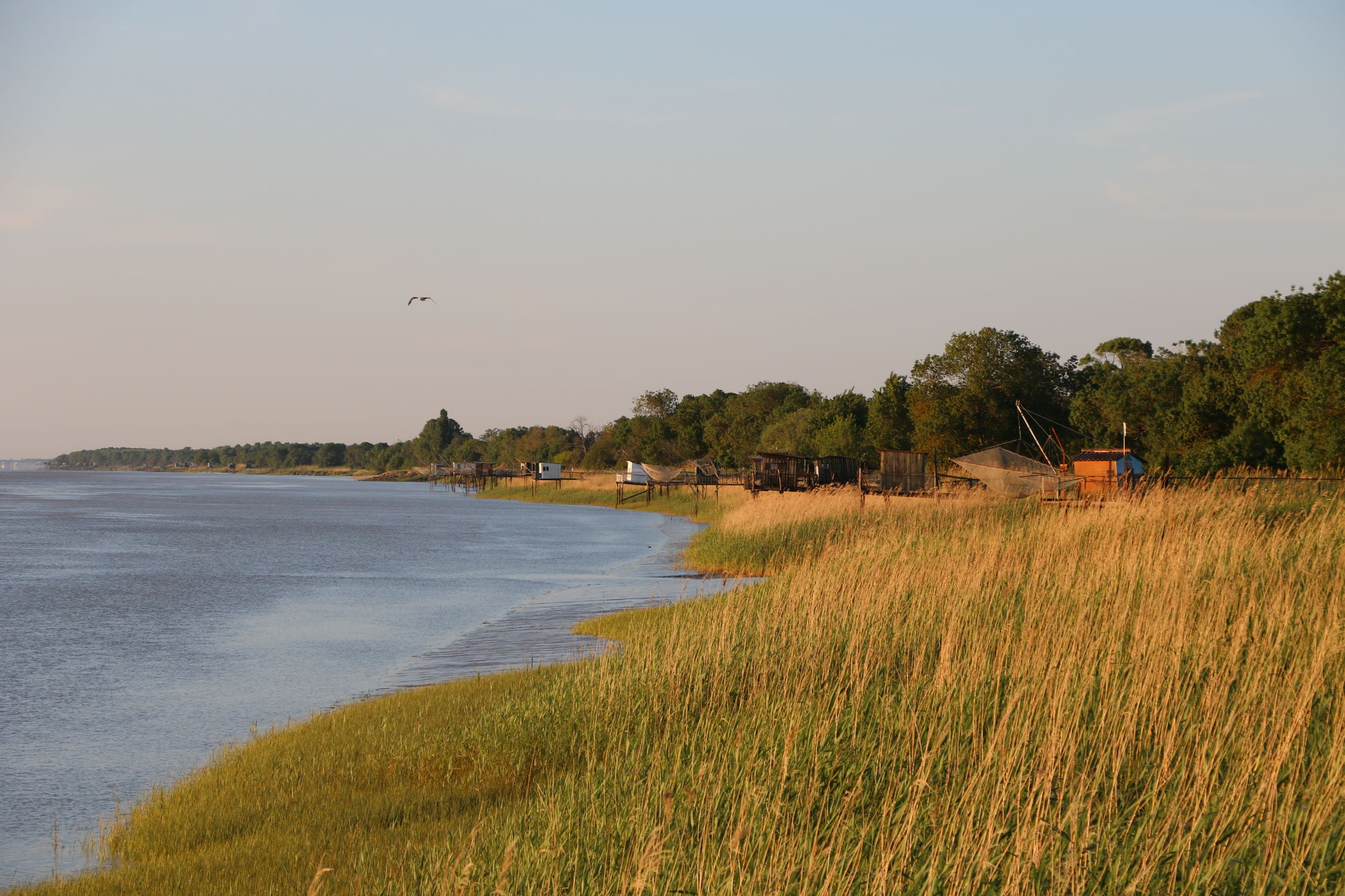 Traditional “carrelet” fishing huts built on stilts on the Gironde estuary, France. The reed bed serves as a shelter for many species of birds and is part of a Marine Protected Area.